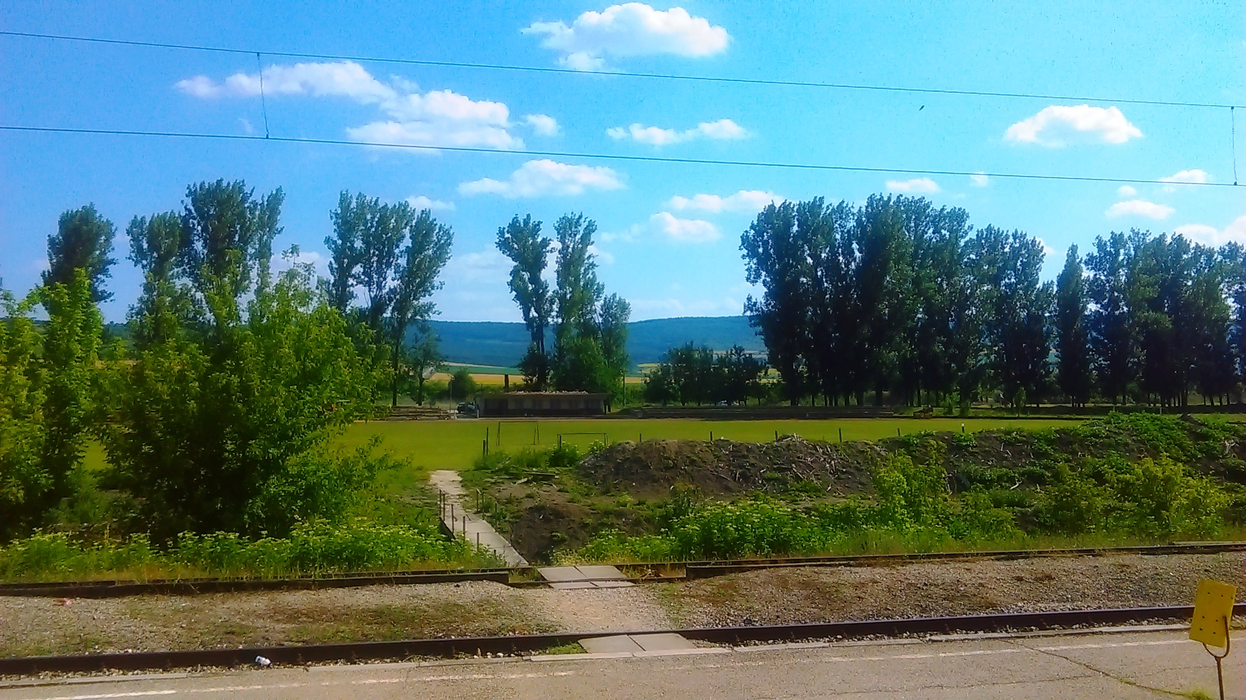 Kamchietz (Dalgopol, Bulgaria) football stadium, 2017